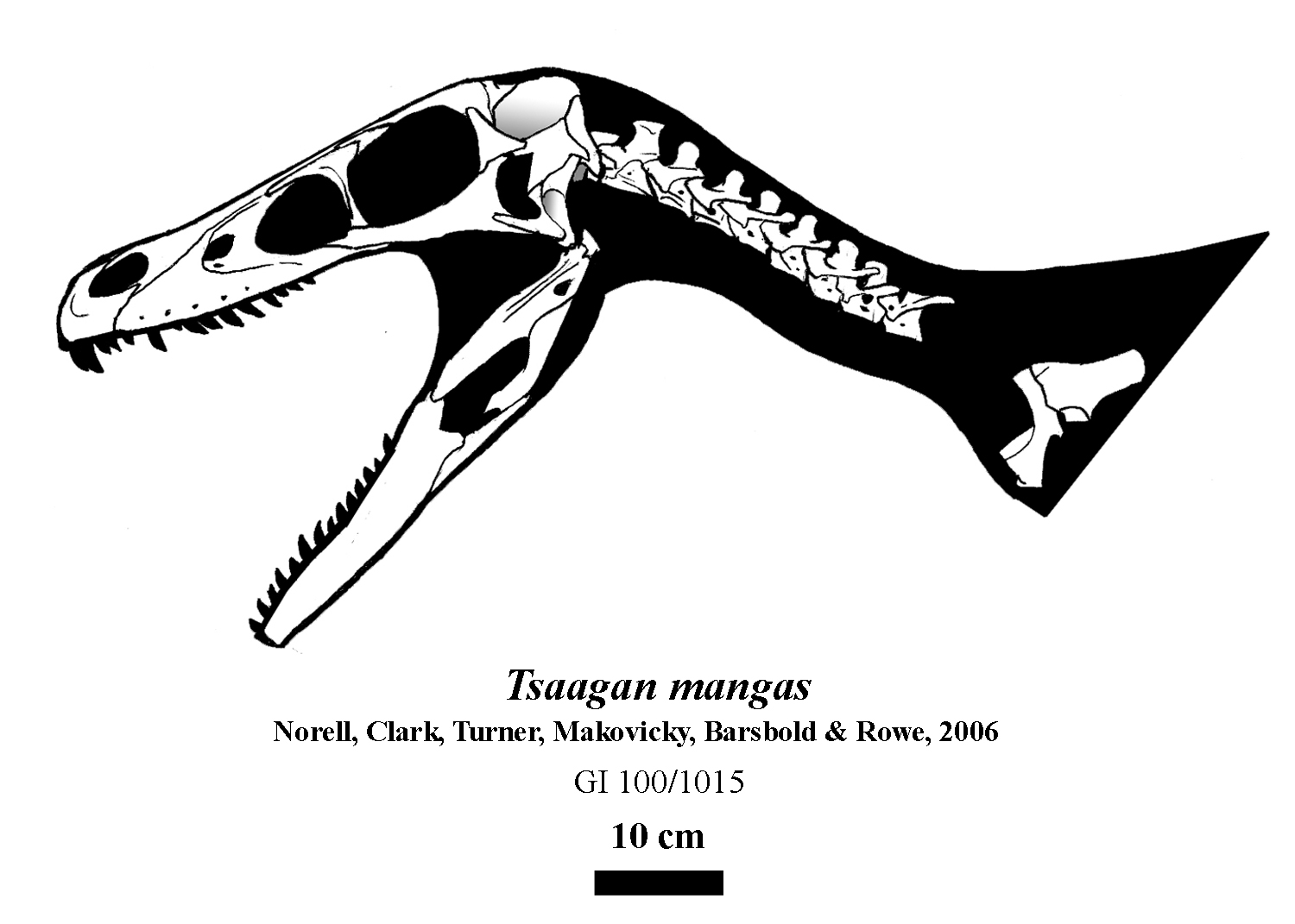 Skeletal reconstruction of Tsaagan mangas.